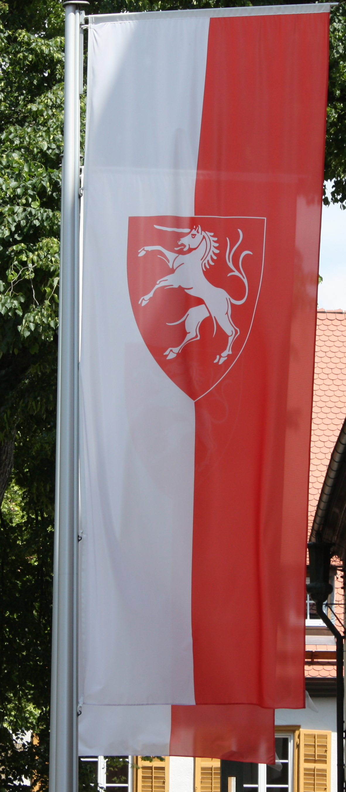 Flag of the German city of Schwäbisch Gmünd.